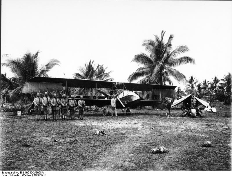 Das einzige Flugzeug. Unser neues selbstgebautes Wasserflugzeug Information added by Wikimedia users.Aviator Bruno Büchner with his Otto / AGO biplane and a native honor guard on an improvised flying field near Daressalam. Surprised by the outbreak of World War I, Büchner, on a demonstration tour through German East Afrika enlisted himself and his plane with the 'Schutztruppen'. Dobbertin called this picture Self-built seaplane and The only airplane. Our self-built waterplane. Aparently a reference to the fact that Büchner would later modify this plane and equip it with floats